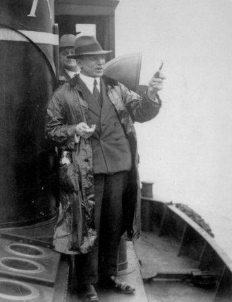 Frank Worsley, photographed ca 1940 by an unknown photographer. The photograph was taken in the late 1930s, or in the early years of the 1939-1945 war, when Worsley had command of a wreck-clearing vessel, the Dalriada, in the English Channel. Frank Worsley. Smythe, P :Photographs of Frank Worsley. Ref: 1/2-182004-F. Alexander Turnbull Library, Wellington, New Zealand.